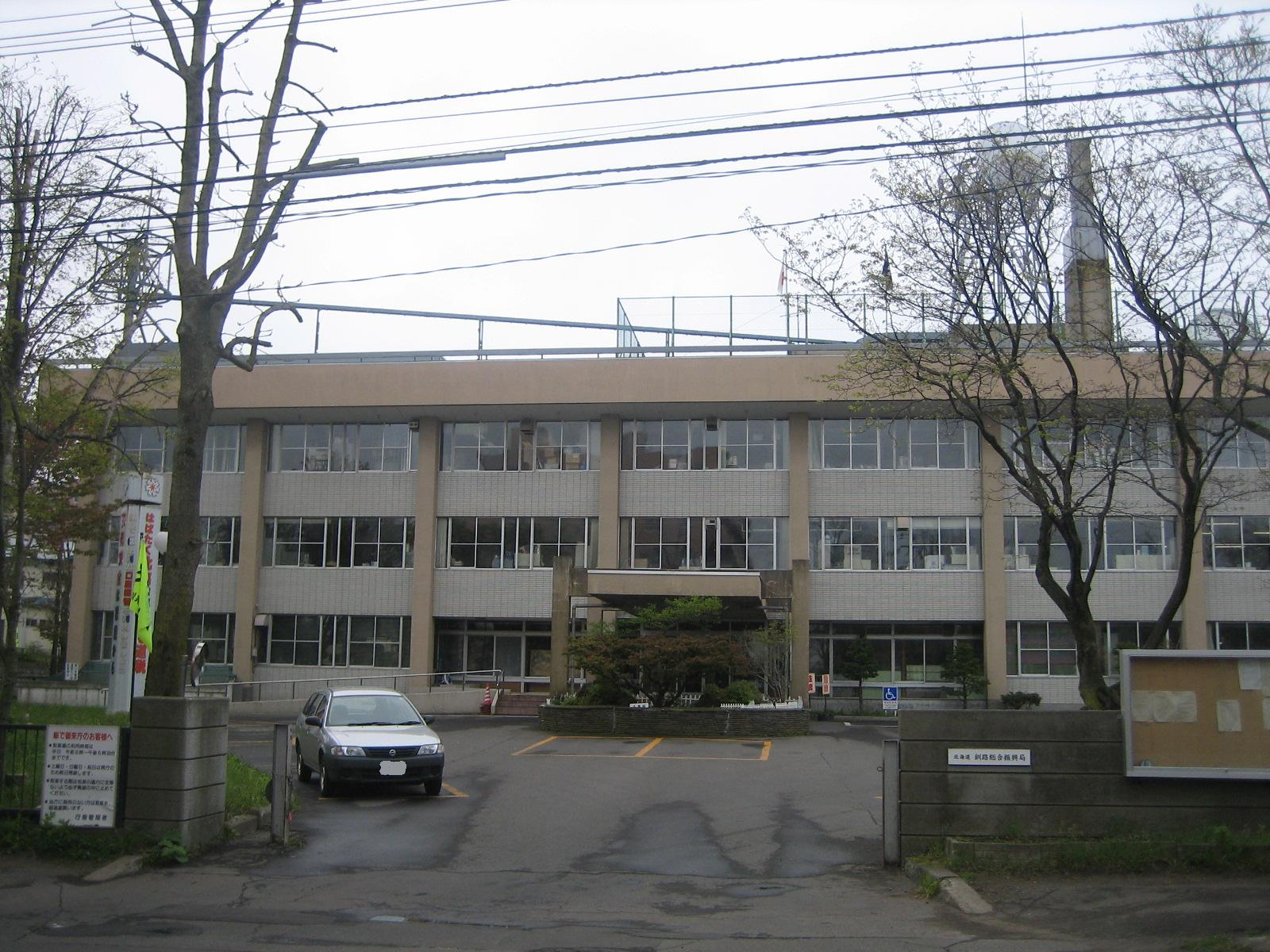 Kushiro general subprefectural bureau